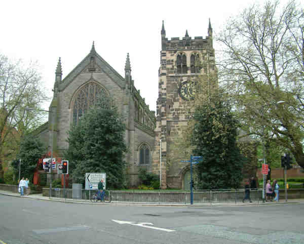 Saint Werburgh's Church, at the corner of the Wardwick and Cheapside, Derby.